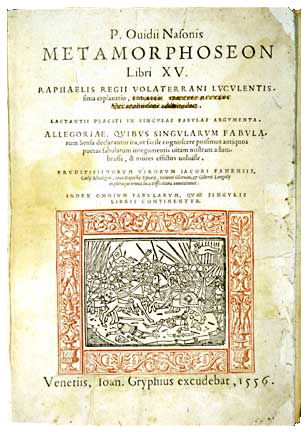 Collection of Hayden White and Margaret Brose. Ovid: Metamorphoseon libri XV.... Title-page. Colored decorative border added later.